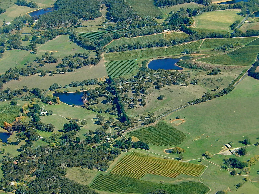 Adelaide Hills aerial